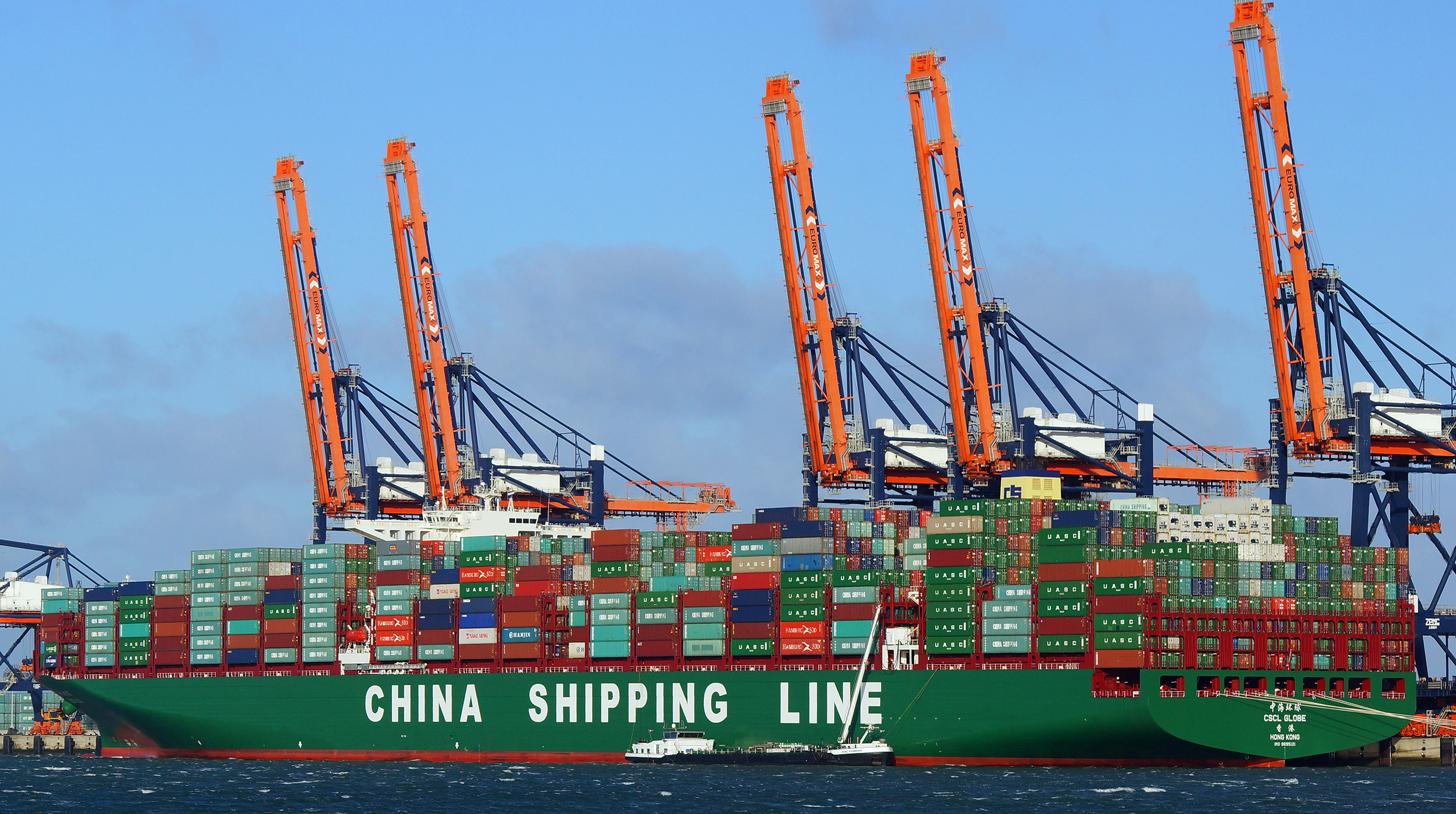 Container ship CSCL Globe, Euromax Terminal Yangtzehaven, Rotterdam